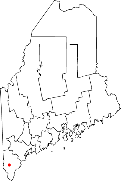 Map of the state of Maine with County Outlines, highlighting Old Town.